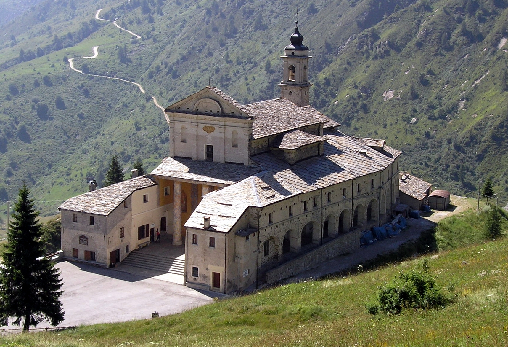 Saint Magnus sanctuary at Castelmagno (Italy)